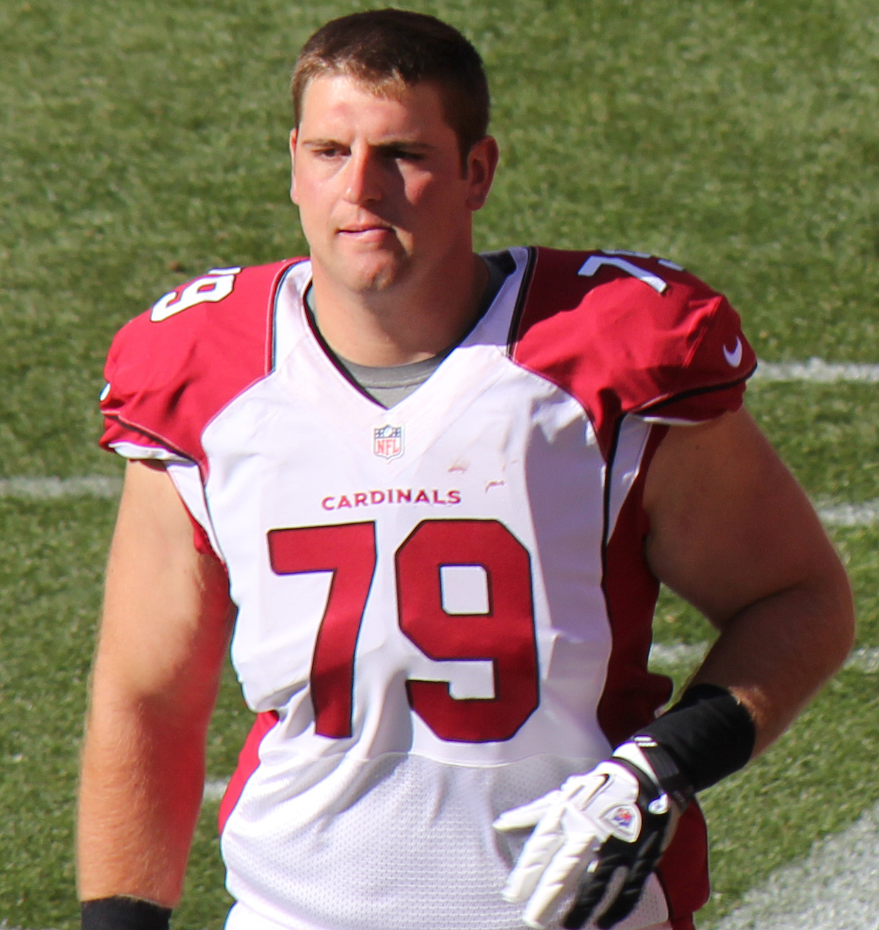 Bradley Sowell, a player on the National Football League.